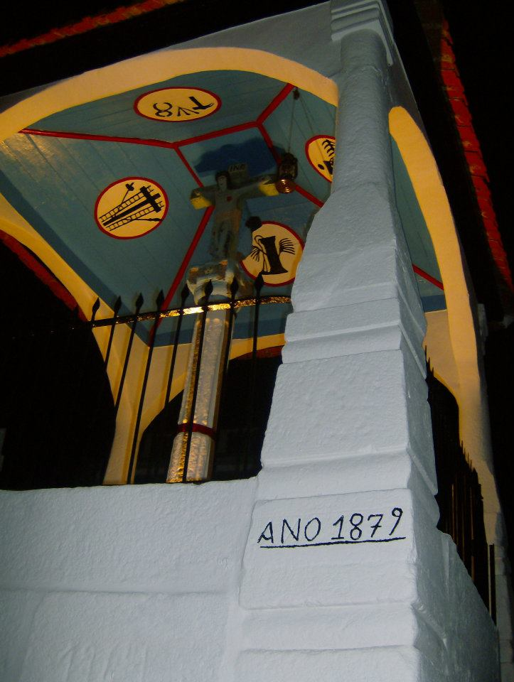 Cruzeiro de Castelões